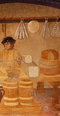 Detail of a fresco from the Castello (or Maniero) of Issogne in the Val d’Aosta depicting a vendor of food and the wares on offer. The cylindrical cheeses on the right have been identified as the earliest known images of Fontina cheese.